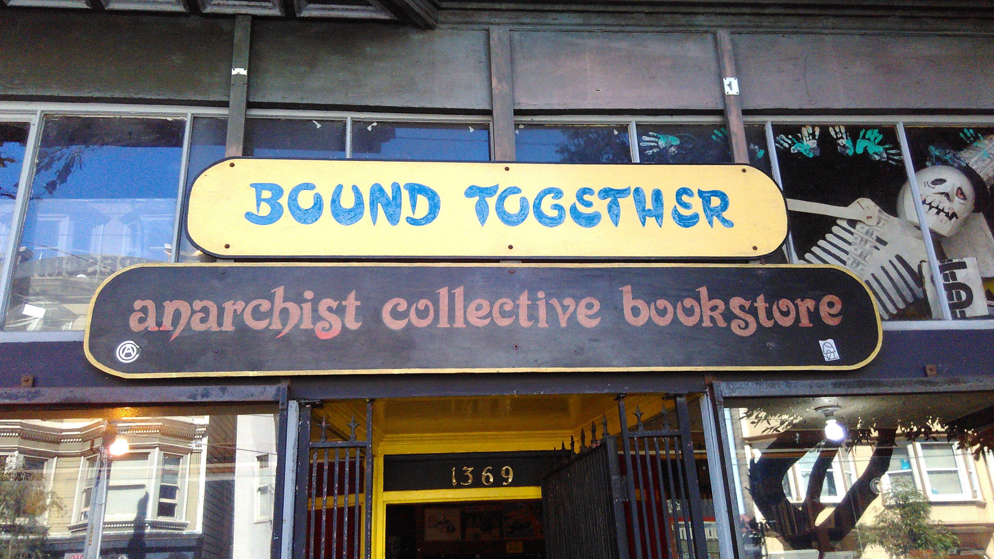 The sign above the door at the Bound Together Anarchist Collective Bookstore in Haight-Ashbury.